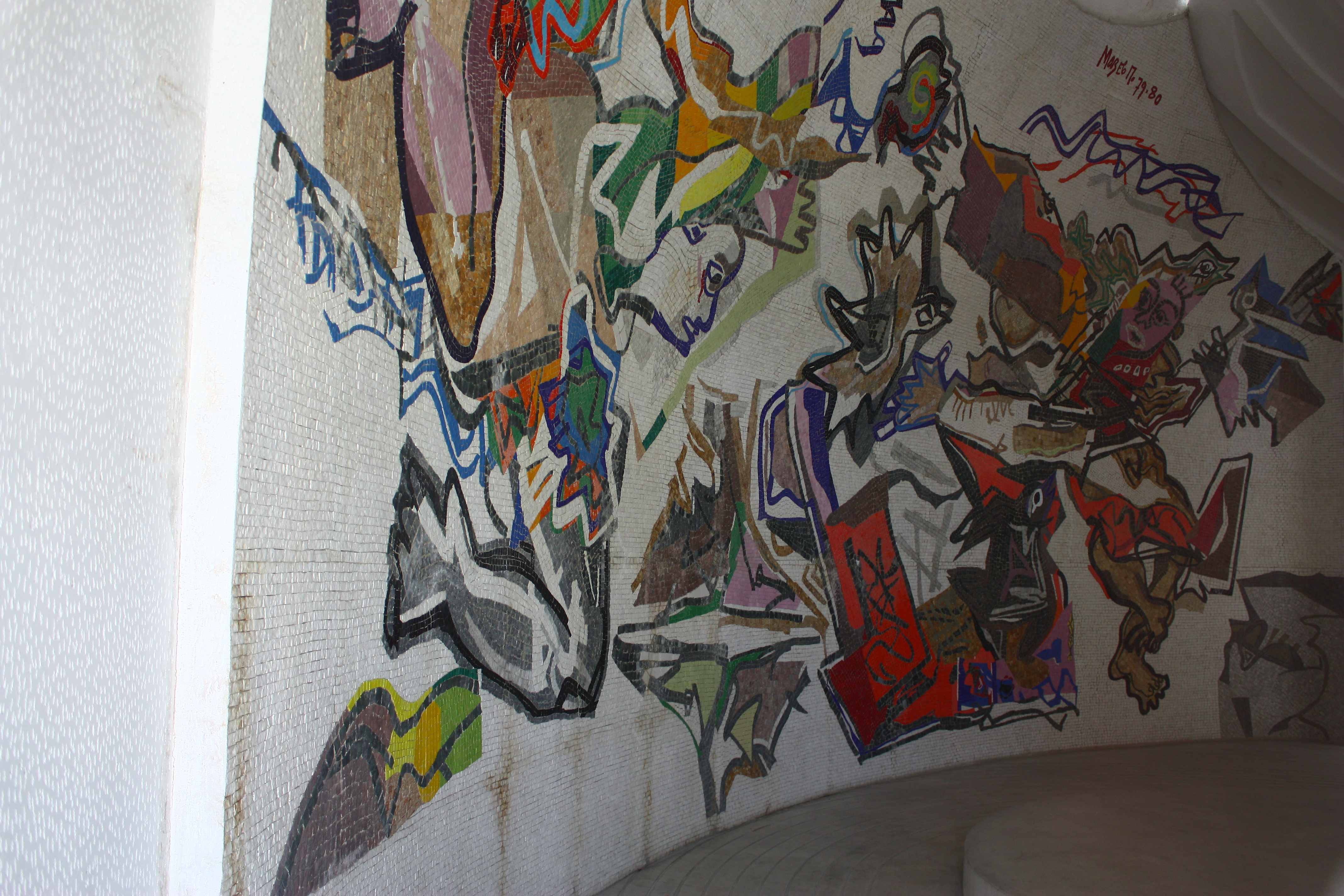 "Memorial Charnel house to the heroes of the Second World War from Veles and its district", Veles, Macedonia